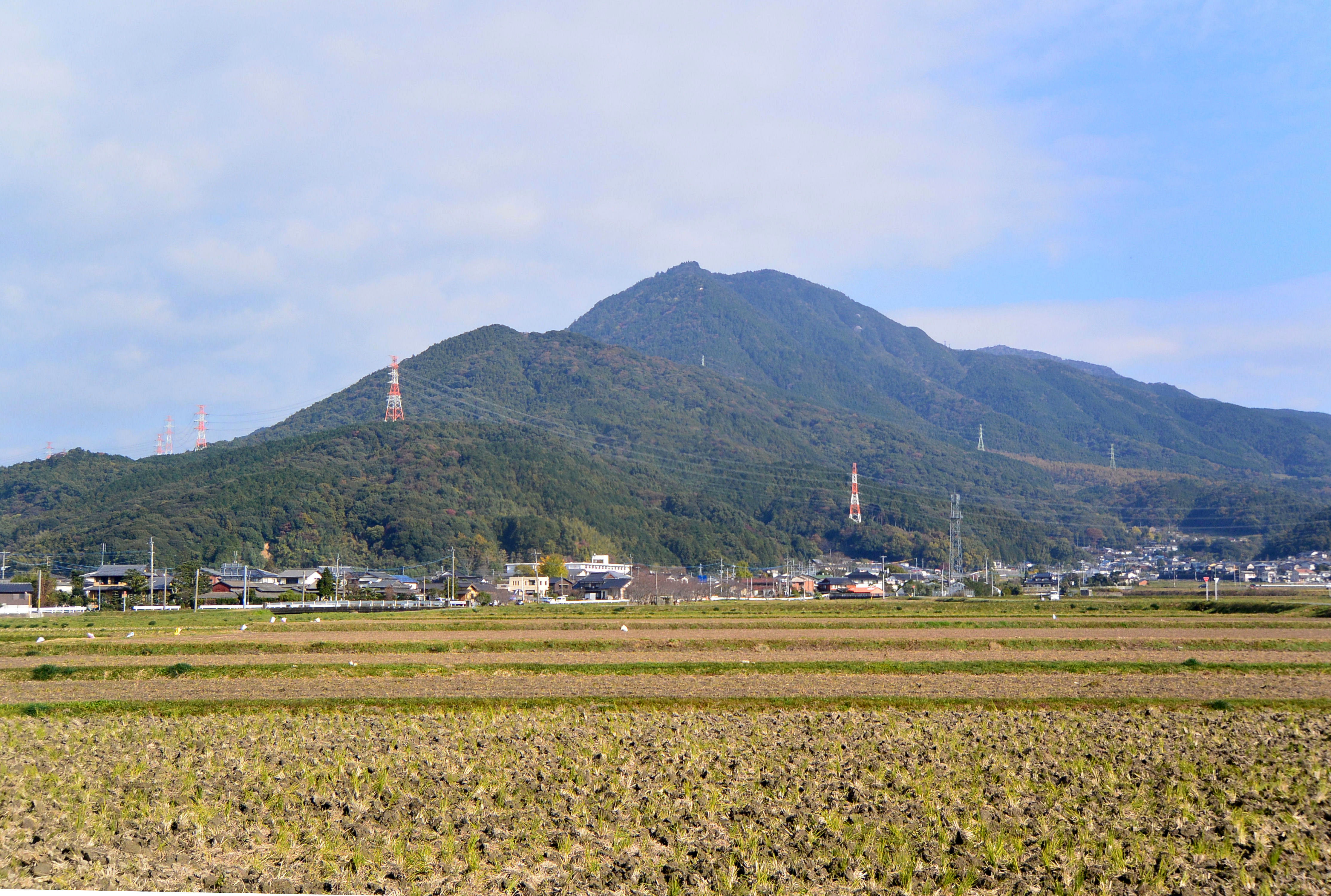 Houman-zan near Dazaifu